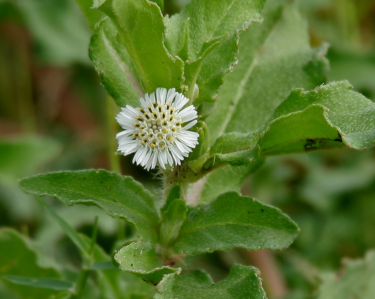 Eclipta alba (syn. Eclipta prostrata, Eclipta erecta, Verbesina alba, Verbesina prostrata) - Keshut, Maka, False Daisy, Marsh Daisy, yerba de tago, bhangra, Trailing eclipta • Hindi: भ्रिंगराज Bhringaraj, केशराज Kesharaj • Manipuri: Uchi-sumbal • Tamil: கரிசிலாங்கண்ணி Karisilanganni, Kavanthakara • Malayalam: Kannunni • Telugu: Galagara • Kannada: Ajagara • Oriya: Kesarda • Sanskrit: भ्रिंगराज Bhringaraj - at Pocharam lake, Andhra Pradesh, India.